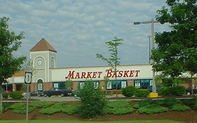 Picture of a Market Basket supermarket in Portsmouth, NH taken by me in 2005 to be added to the Market Basket supermarket article to show a typical Market Basket store. Store Number 56.